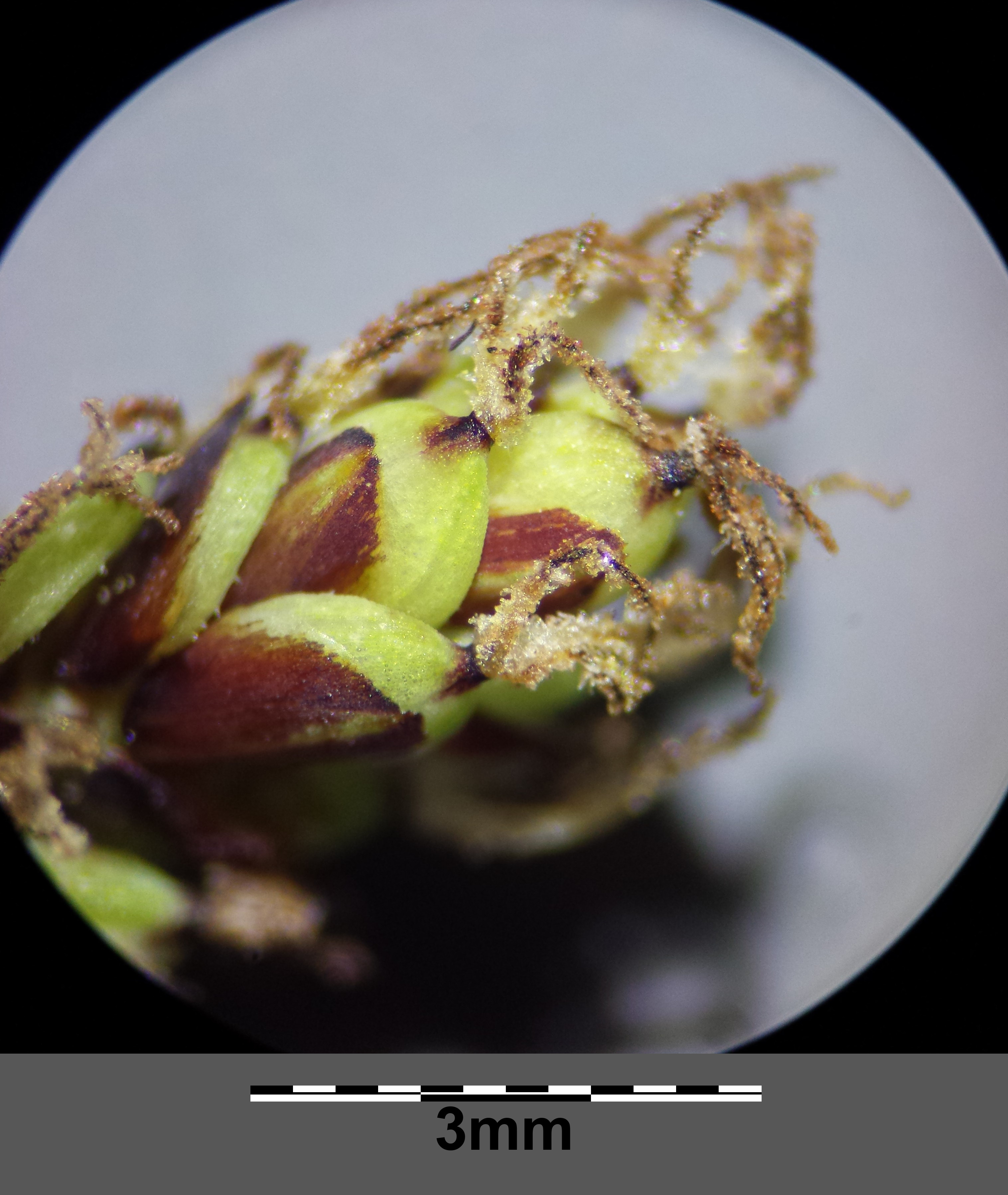 Utricles Taxonym: Carex flacca (subsp. flacca) ss Fischer et al. EfÖLS 2008 ISBN 978-3-85474-187-9 Location: Steinberg near Niederhollabrunn, district Korneuburg, Lower Austria - ca. 375 m a.s.l. Habitat: semi-dry grassland